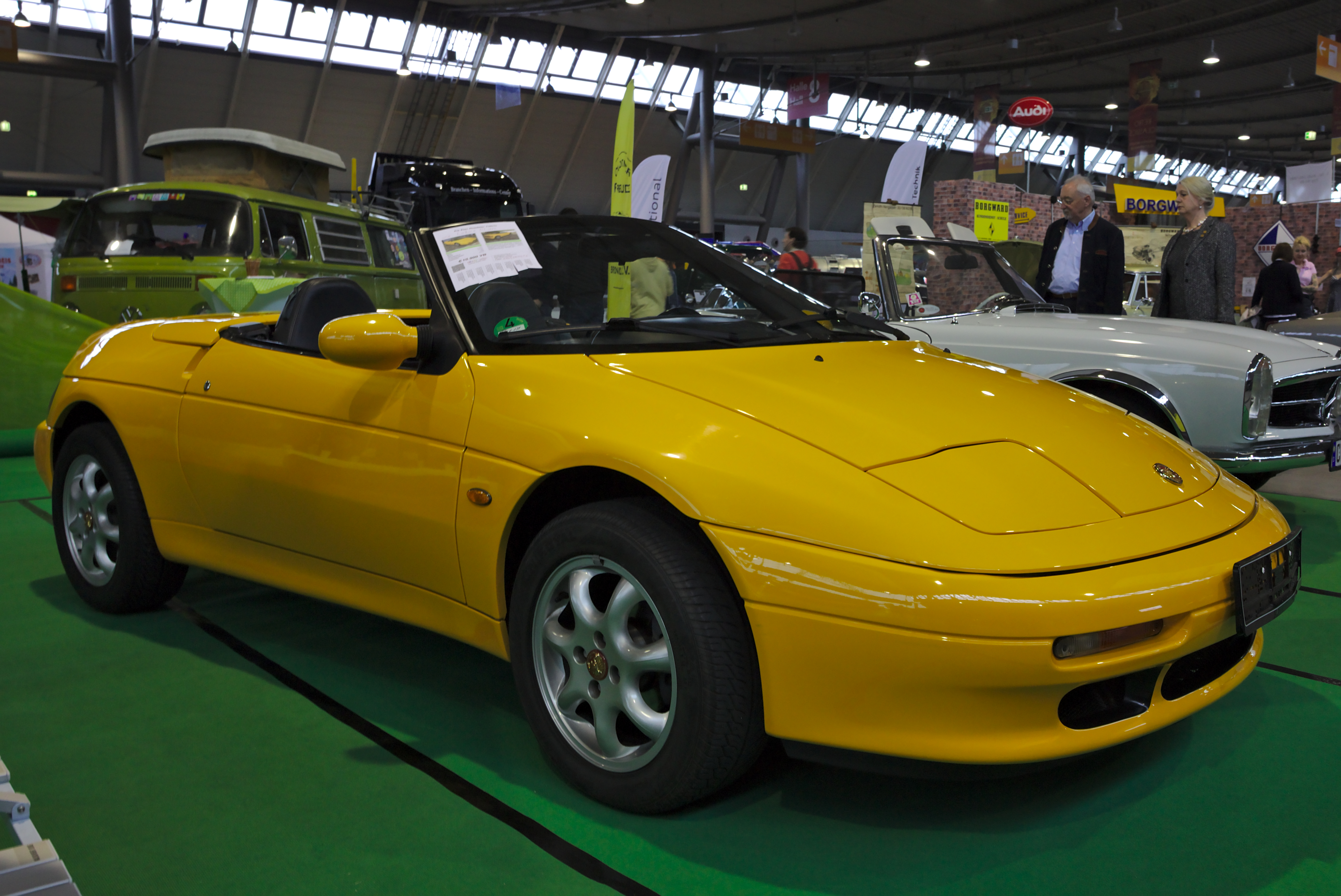 Kia Elan at Retro Classics 2018